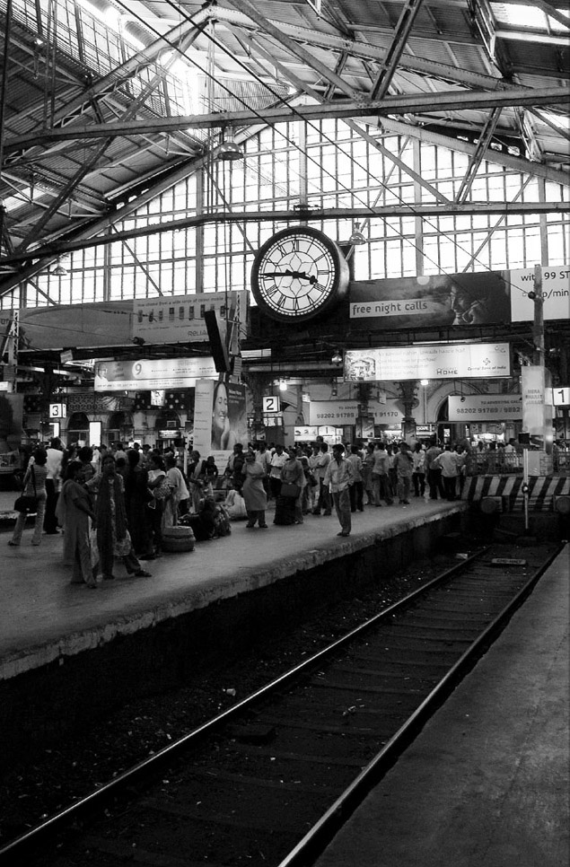 The terminal end of platform 2 at Mumbai CST suburban station.